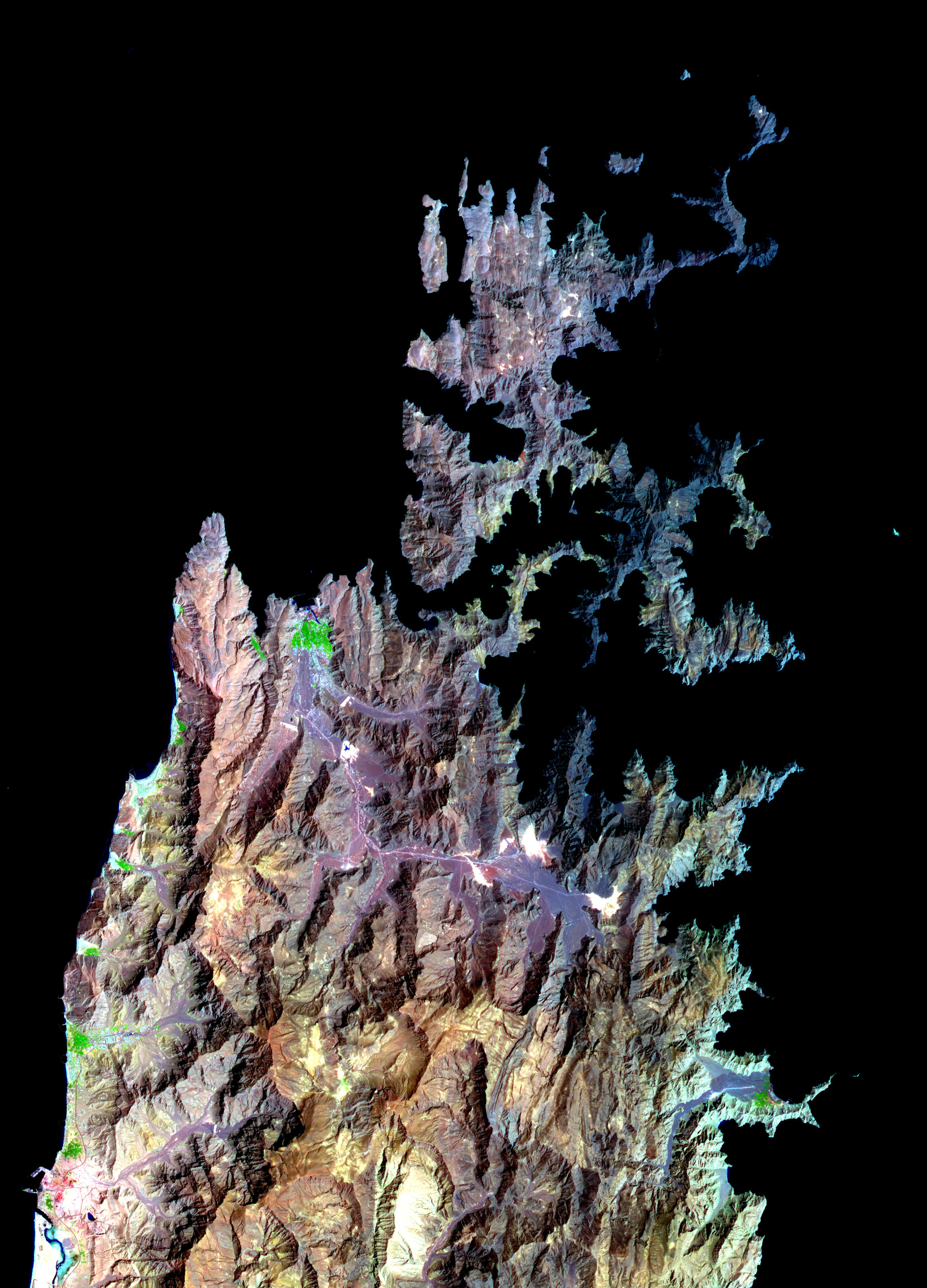 Musandam’s largest city, Al Khasab, is jewel-like in the brilliant contrast between its vivid shades of blue, white, and green and the more subtle rainbow tones of the surrounding rock in this false-colour image. The term Khasab refers to the fertility of the soil. The land around the city clearly sustains agriculture as evidenced by the bright green plant-covered land. Spots of green highlight other settlements along the coast. Man-made surfaces are pale blue and white. Fishing, agriculture, and ship building are the primary industries in Musandam, reports the government of Oman, and the statement is supported by the coastal locations of the settlements and the green surrounding them in this image.Apart from Al Khasab and other settlements, the rocky peninsula is barren. The limestone mountains are coloured yellow, brown, and red by traces of iron or grey by magnesium.